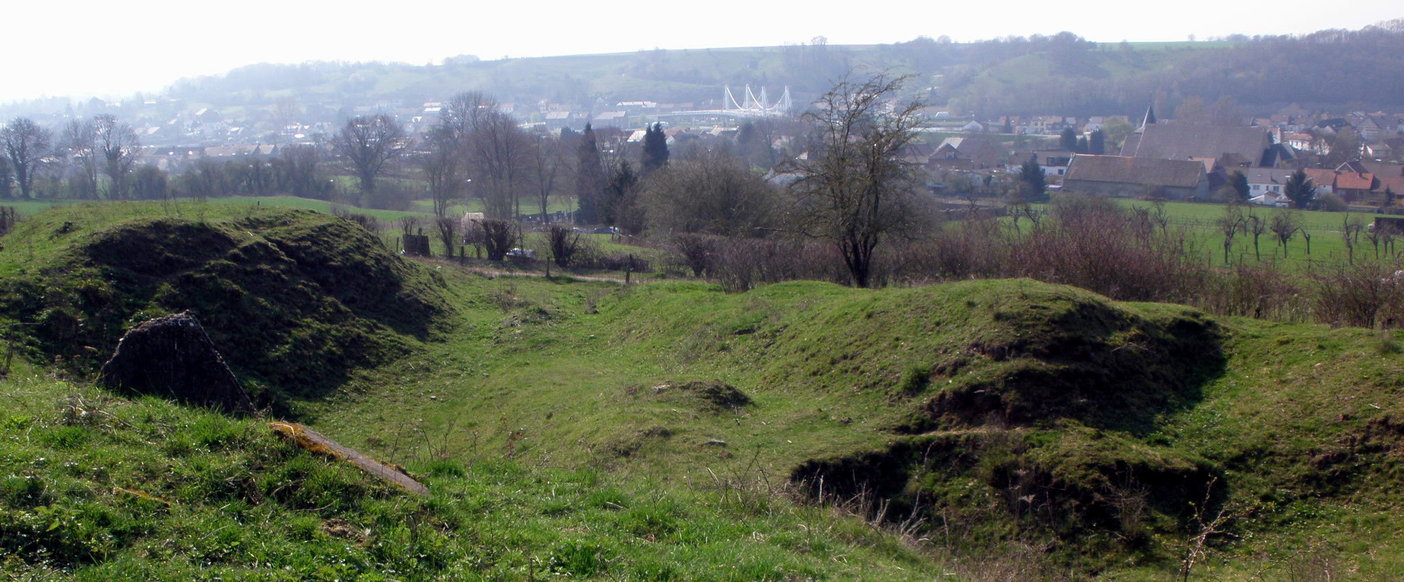 Maastricht, the Netherlands. Panoramic view from mount Sint-Pietersberg towards the the village of Kanne (Belgium) in the South.